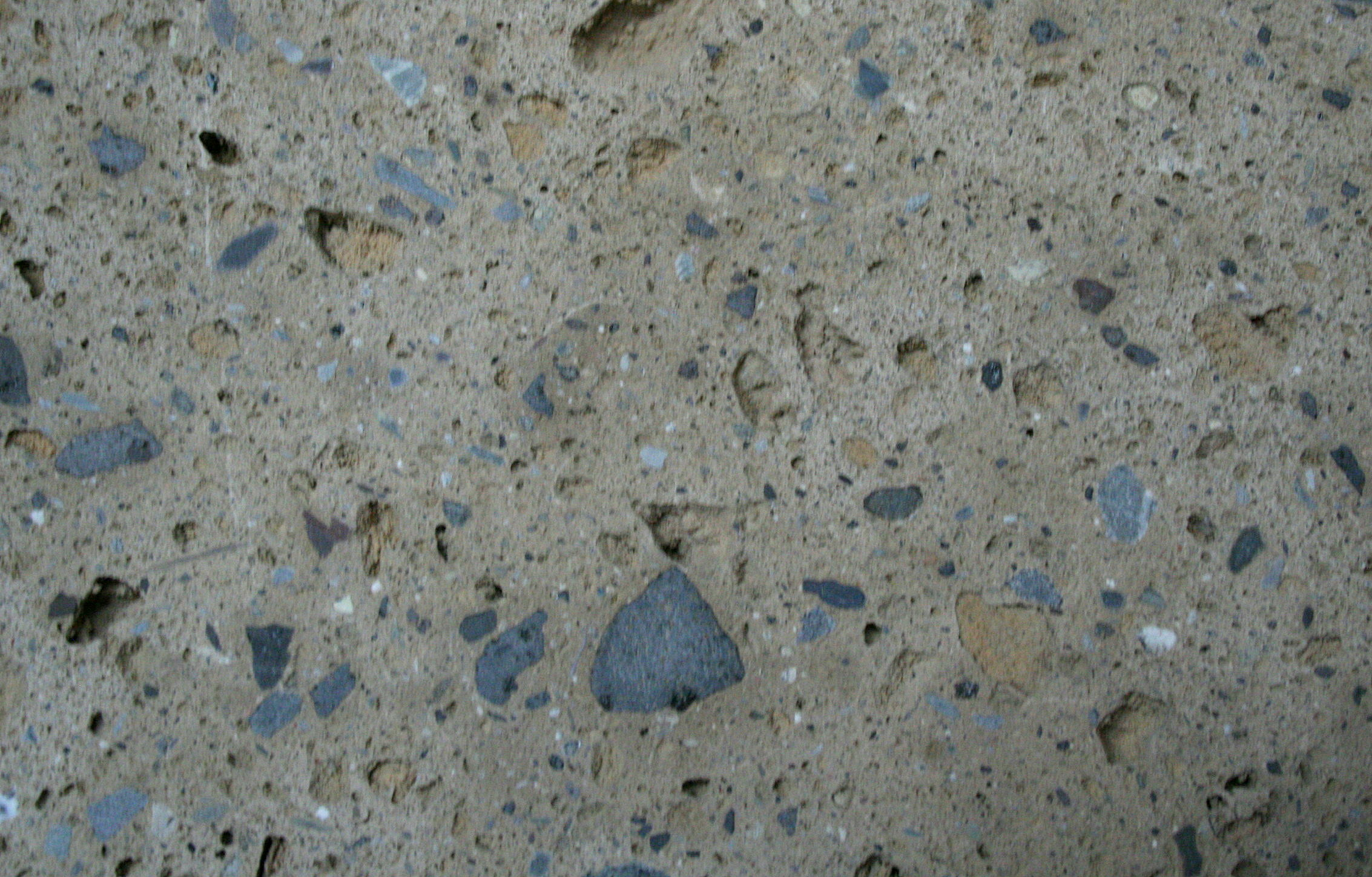 Ettringer tuff, sample, 10 cm high by 15 cm wide, sanded